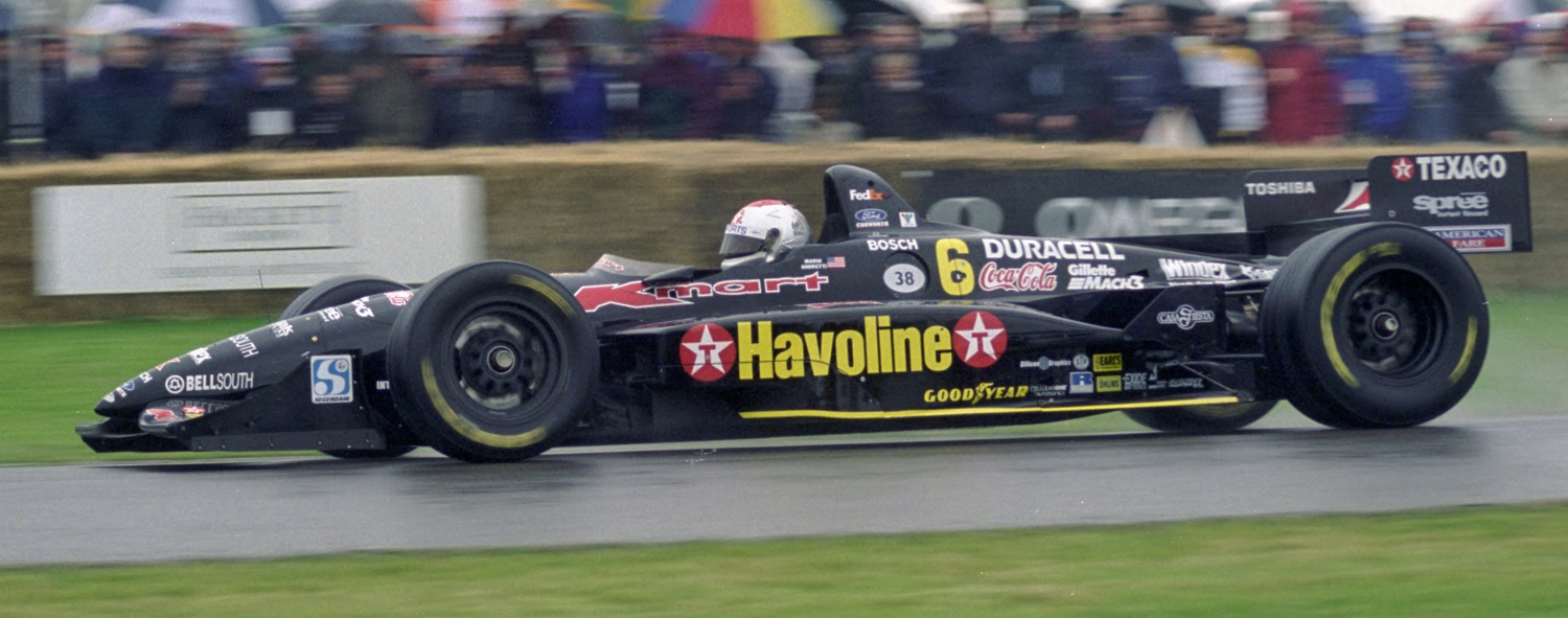 Mario Andretti - 1998 Goodwood Festival of Speed